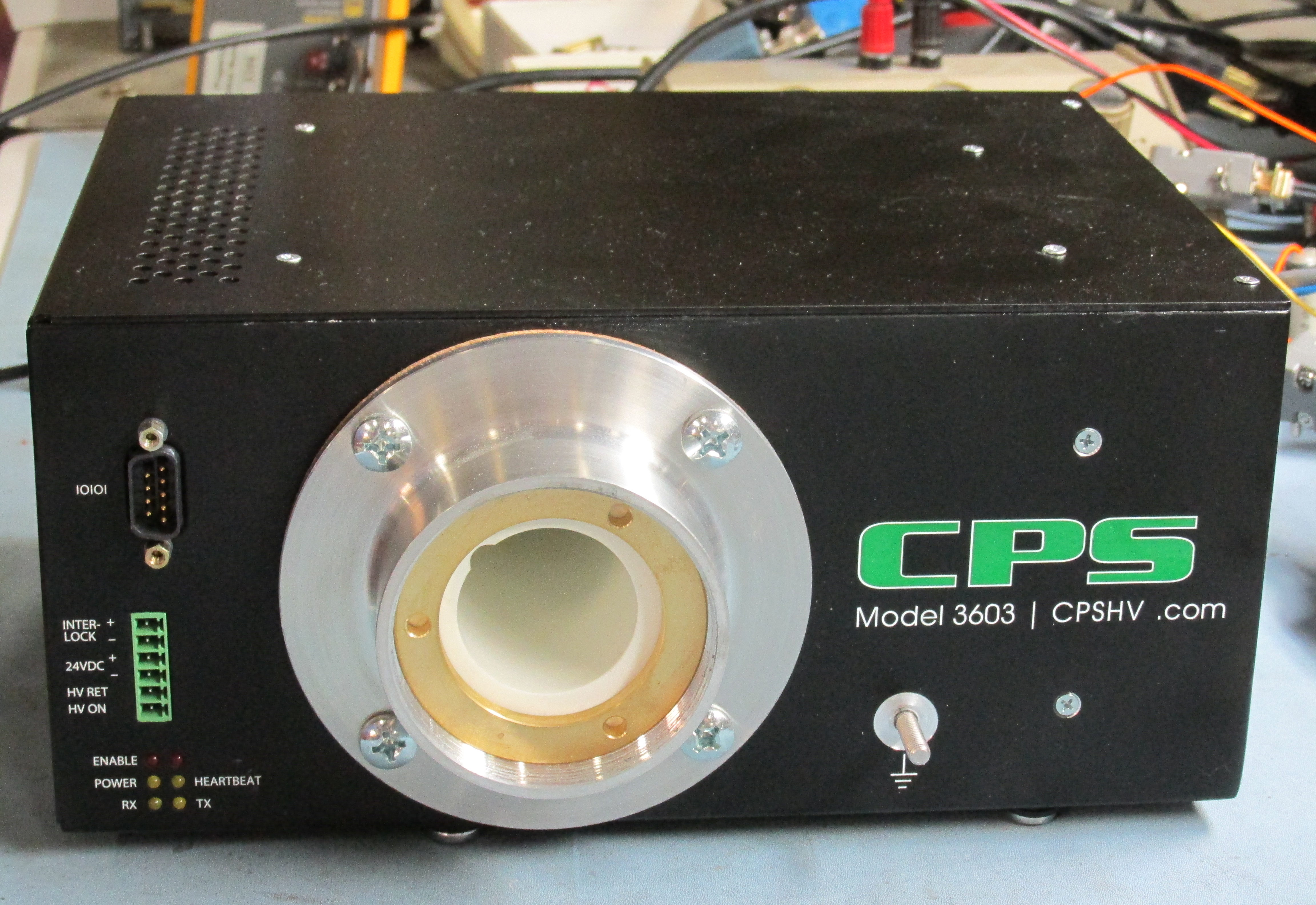 A high voltage (30 kV) power supply from an electron microscope (CPS model 3603). This unit generates the high acceleration voltage needed to produce an electron beam. It has two additional outputs that float on top of the beam voltage: 2 kV for the wenhelt and 3A for the filament. All three outputs are conveyed through a single Federal Standard connector (large opening near center of front panel).